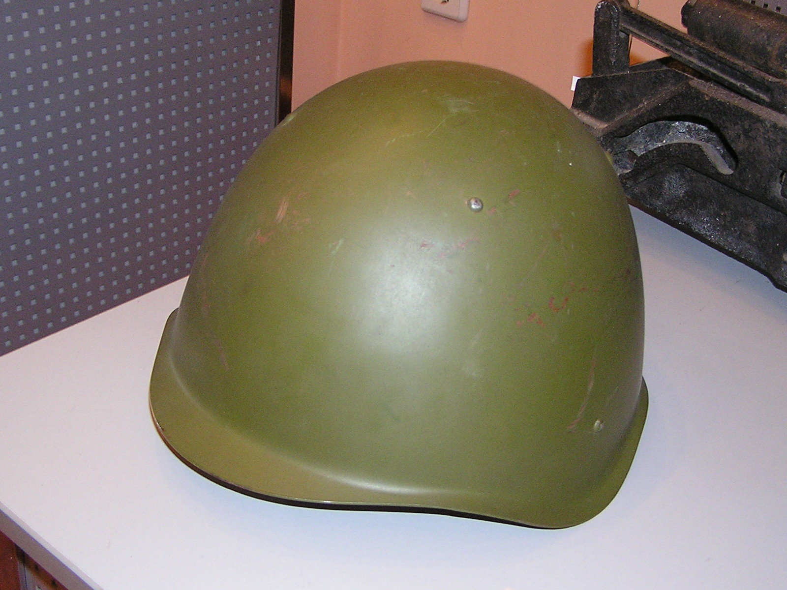 Museum of the History of Donetsk militsiya